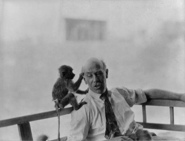 Louis A. Fuertes, expedition artist, sitting on couch with a small monkey on his shoulder who appears to be grooming Fuertes. The monkey is the dog-faced baboon named Tinish, the expedition mascot. 1927. Name of Expedition: Daily News Abyssinian Expedition Participants: Wilfred Osgood, Louis Agassiz Fuertes, C. Suydam Cutting, Jack Baum, Alfred M. Bailey Expedition Start Date: September 7, 1926 Expedition End Date: May 20, 1927 Purpose or Aims: Zoology Mammals and Birds Location: Africa, Ethiopia [Abyssinia] Original material: Album print Digital Identifier: CSZ56119 Learn more about The Field Museum's Library Photo Archives.